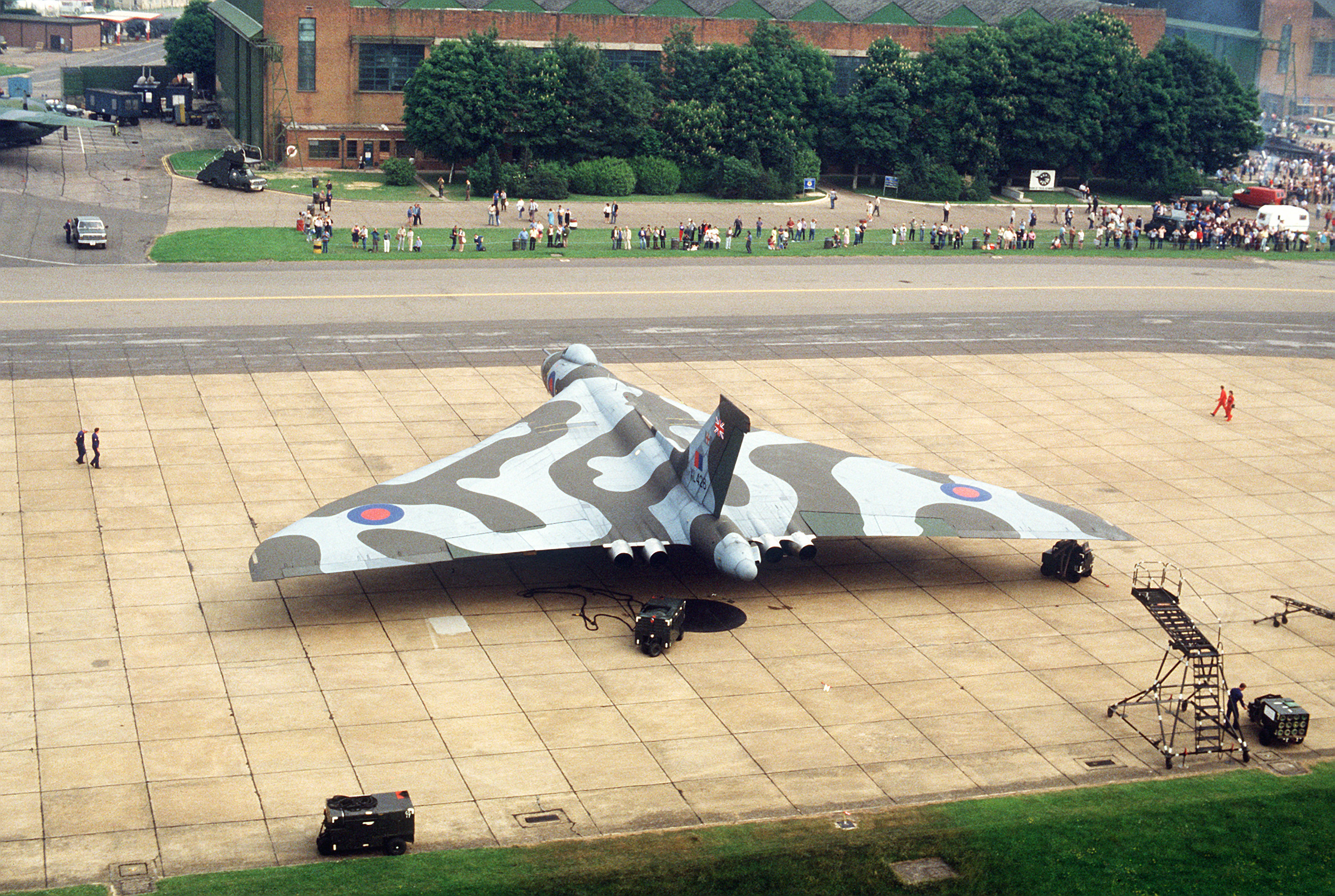 An aerial view of a Royal Air Force Avro Vulcan aircraft parked on the flight line during Air Fete '84.